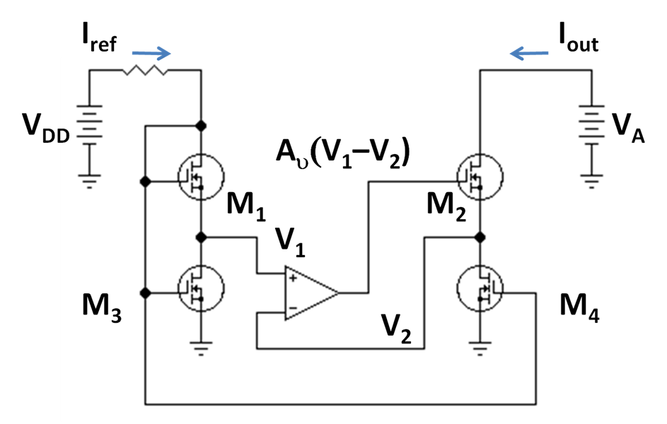 Made using Klunky and Paint; labeled in Excel